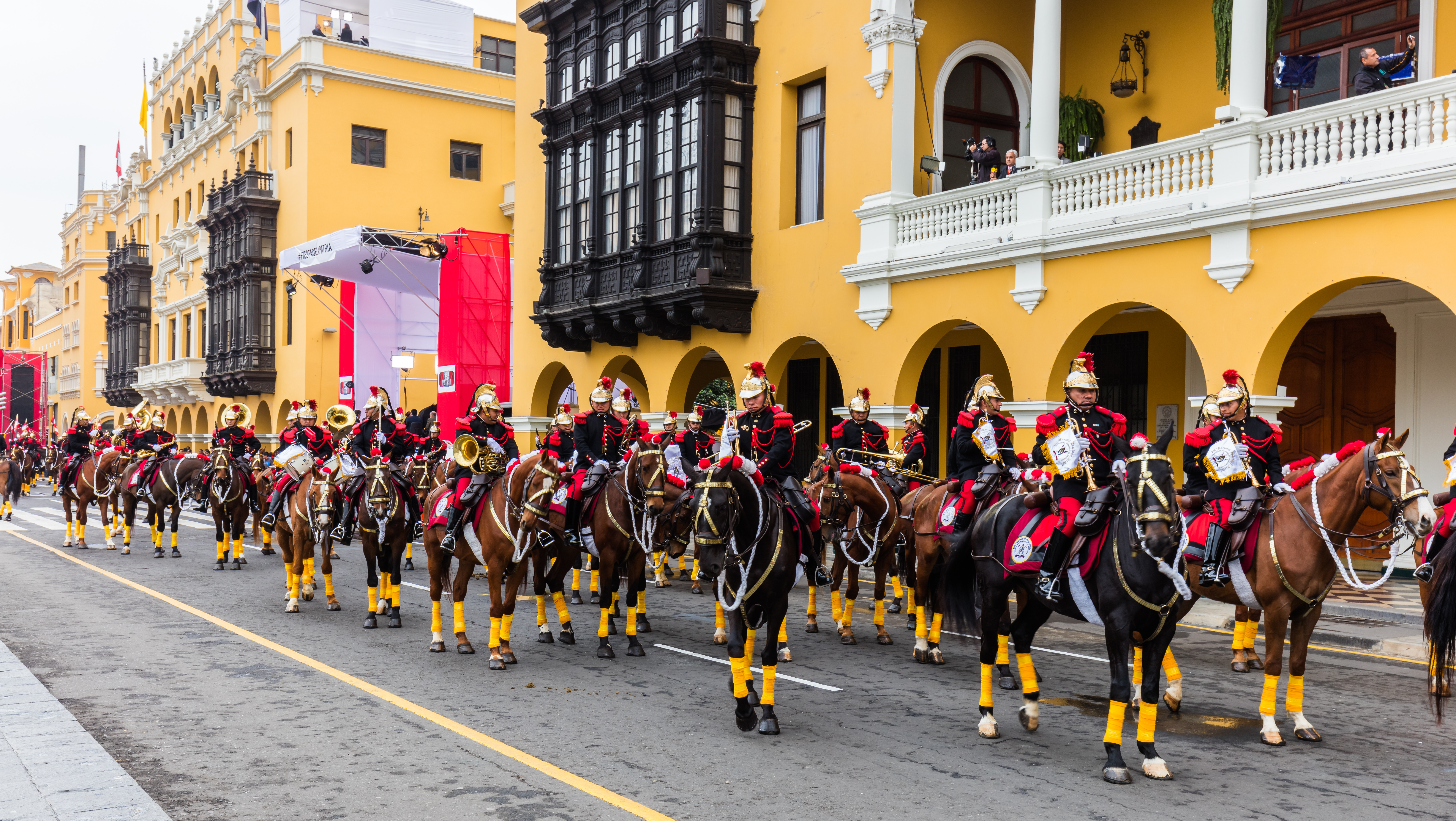 Presidential guard, Plaza de Armas, Lima, Peru